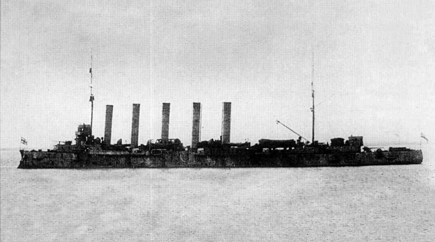 British cruiser Glory IV. Former the Imperial Russian cruiser Askol'd under the British flag hoisted by former Russian ally in August 1918.